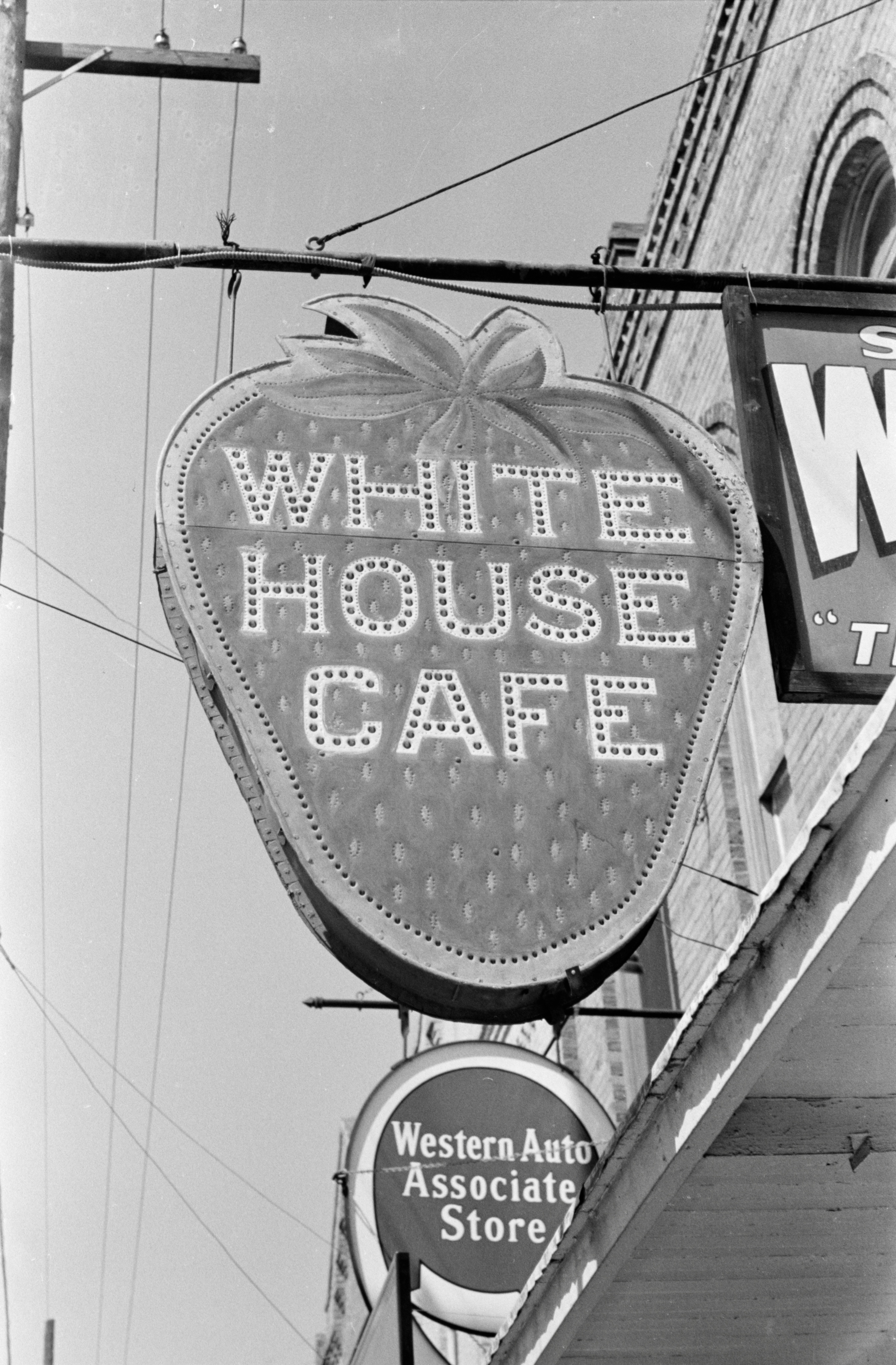 Symbol of the strawberry country, Ponchatoula, Louisiana. Sign on cafe, 1939